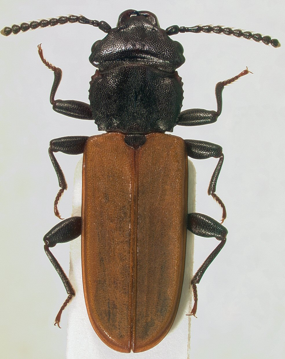 Dorsal habitus AutoMontage photo of Platisus coloniarius.